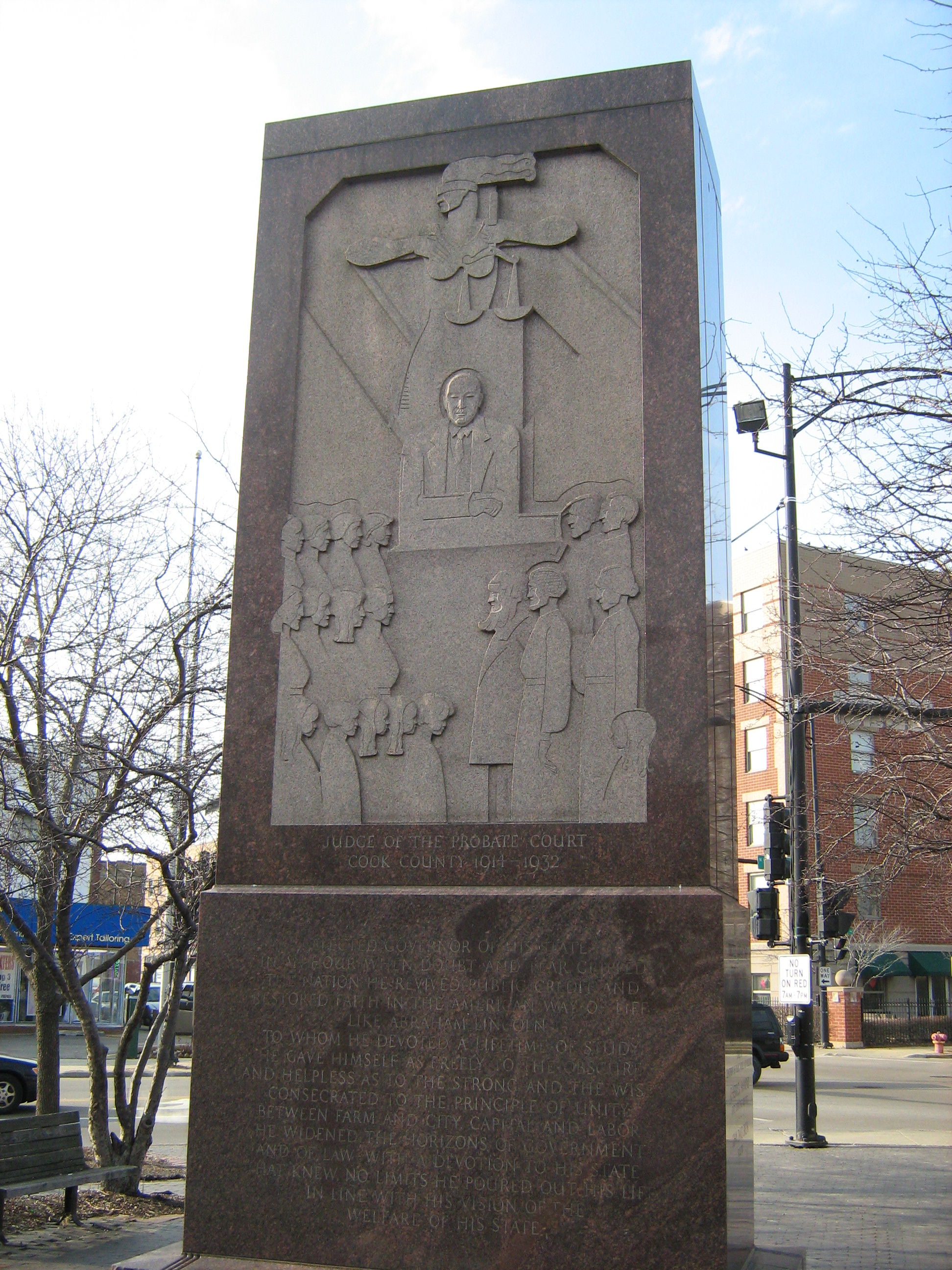 Horner Park 2741 W. Montrose Ave. Chicago, IL 60618 (773) 478-3499